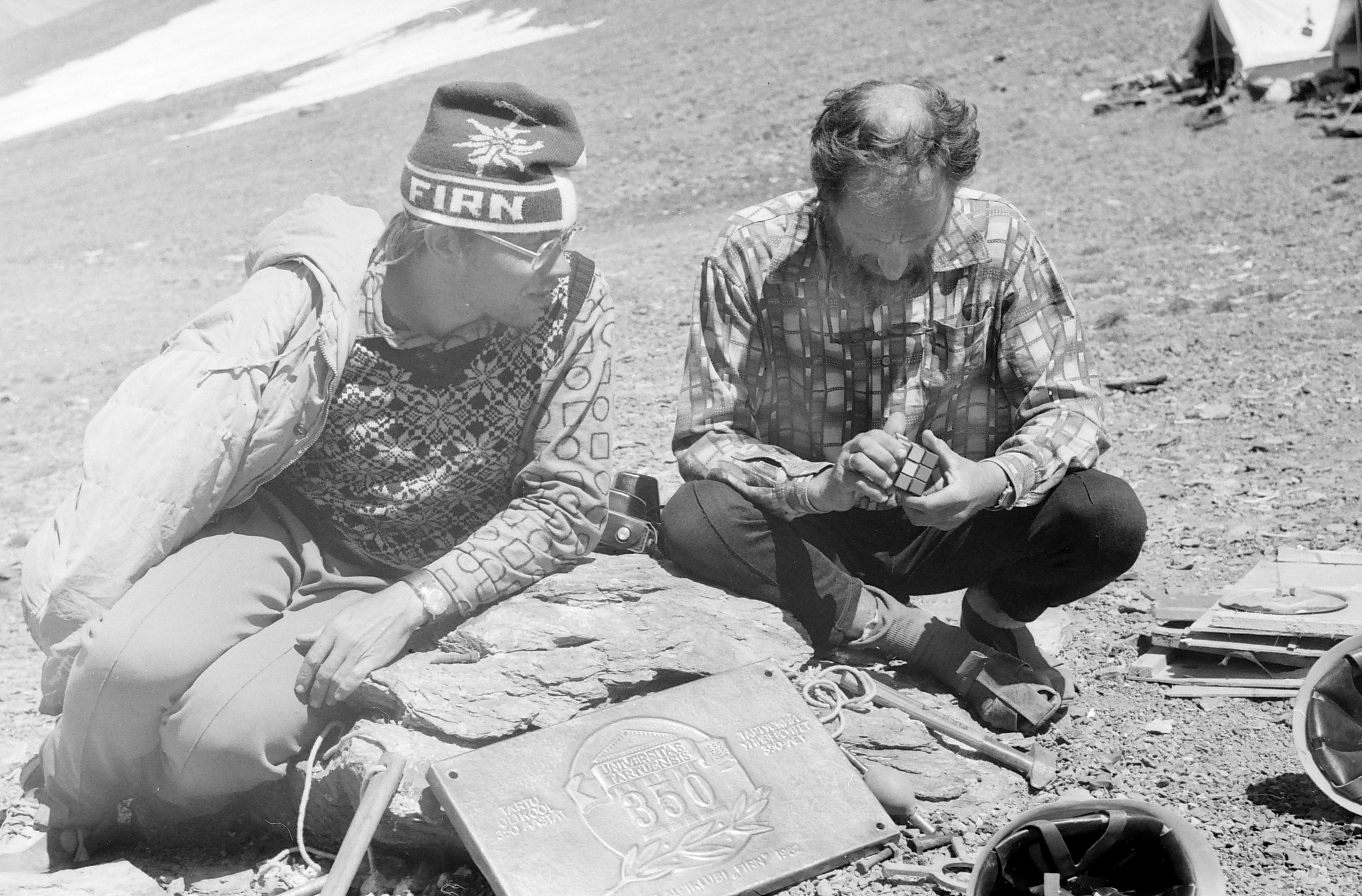 Estonian mountaineer solving Rubik's Cube during 1982 expedition in Pamir Mountains.